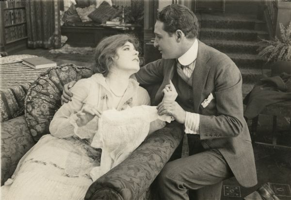 Ethel Clayton and Joseph Kaufman in a love scene from the 1915 Lubin silent drama "A Woman Went Forth."